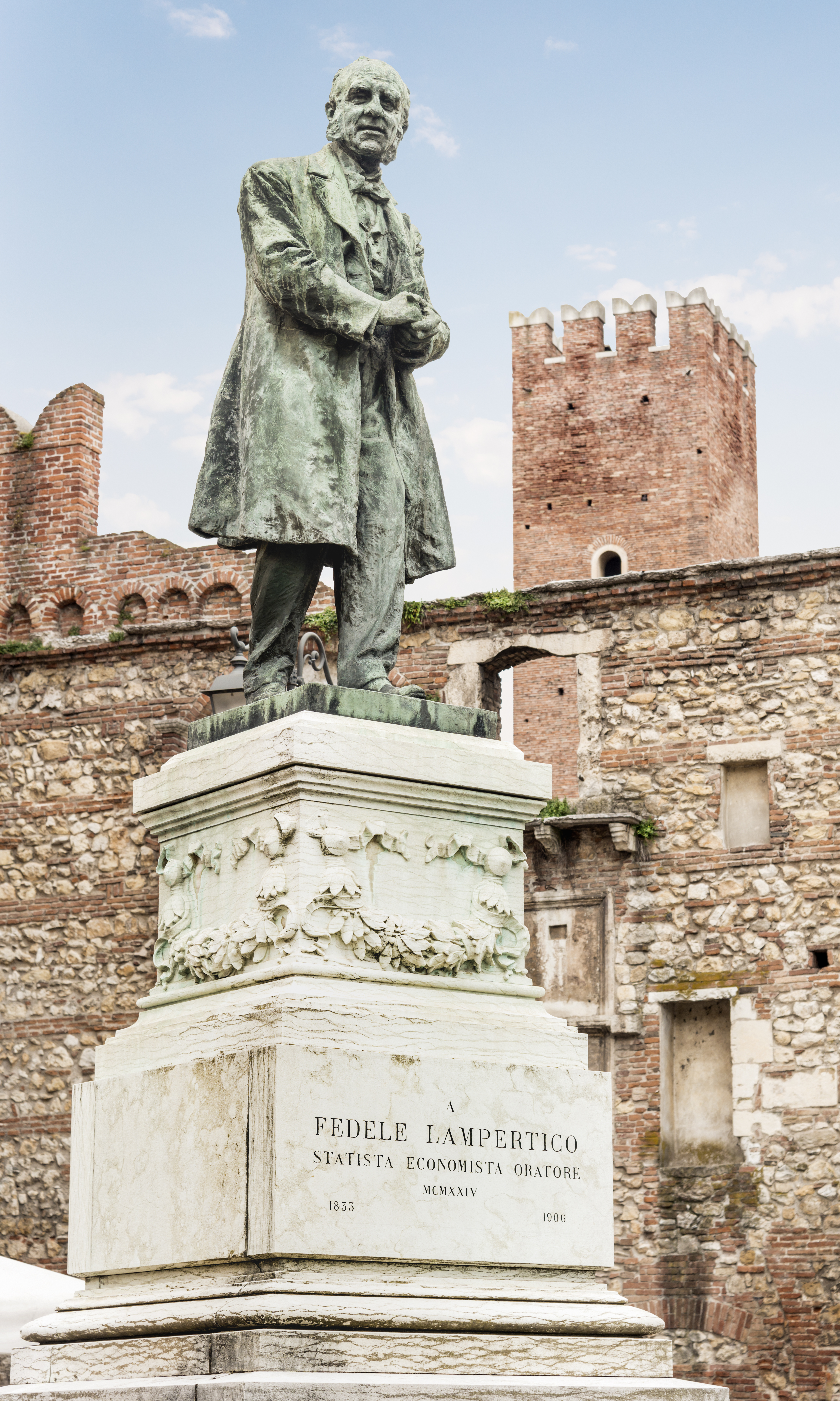 Monument with statue of Fedele Lampertico, sculptor Carlo Spazzi (1924), in Piazza Matteotti in Vicenza